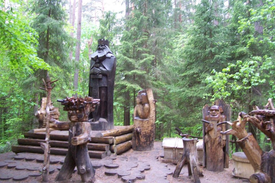 La salle du trone dans le Parc de Tervete (Lettonie) Throne room in Tervete's Park (Latvia) I took the photo by myself in Tervete park, I think there is no low protecting the sculptures in the park as cameras are not prohibited.